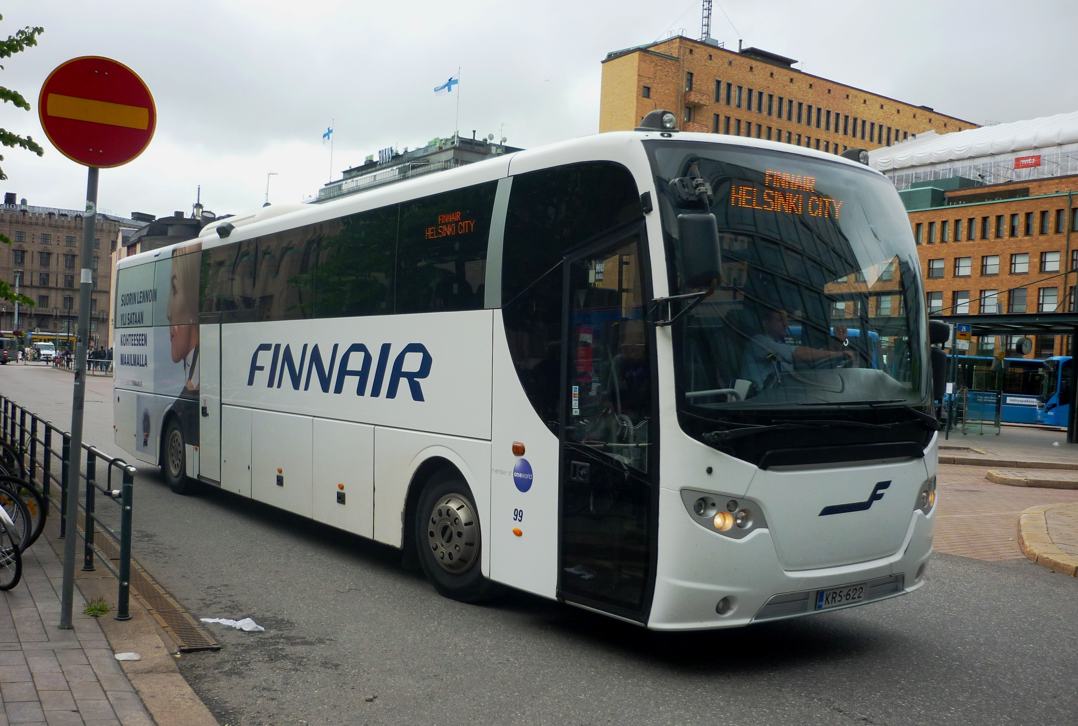 Finnair City Bus at Elielinaukio in Helsinki, Finland